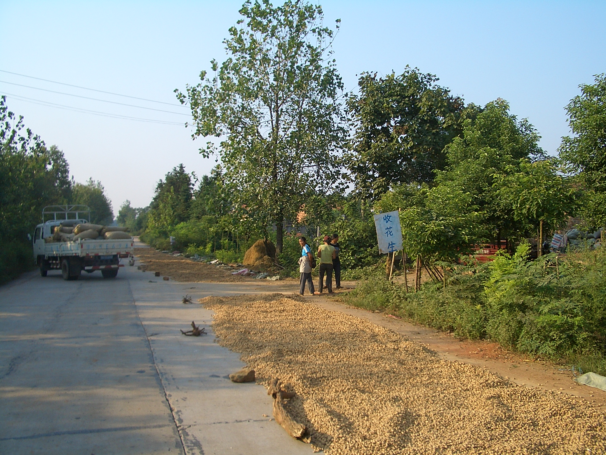 Farmers handle harvested and bagged peanuts. Plenty more are drying on the road. The sign says 收花生, "collecting (buying) peanuts", (Southern Jiangxia District, City of Wuhan)